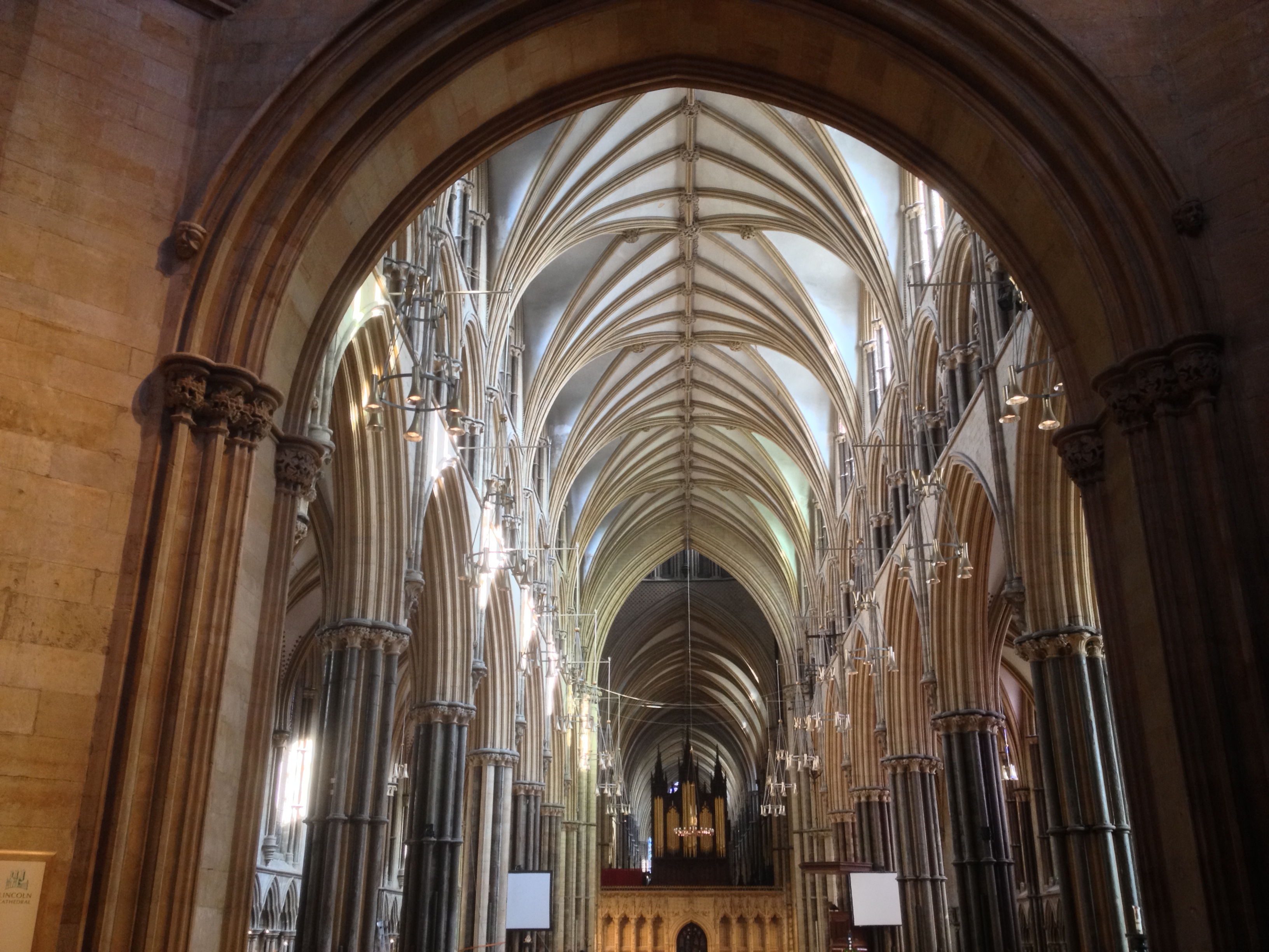 Lincoln Nave